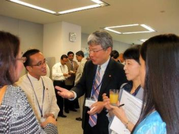 Seiji Ōsaka, Parliamentary Secretary for Internal Affairs and Communications, attended an exchange meeting at the United Nations Statistical Institute for Asia and the Pacific in Chiba City, Chiba Prefecture on August 22, 2011.